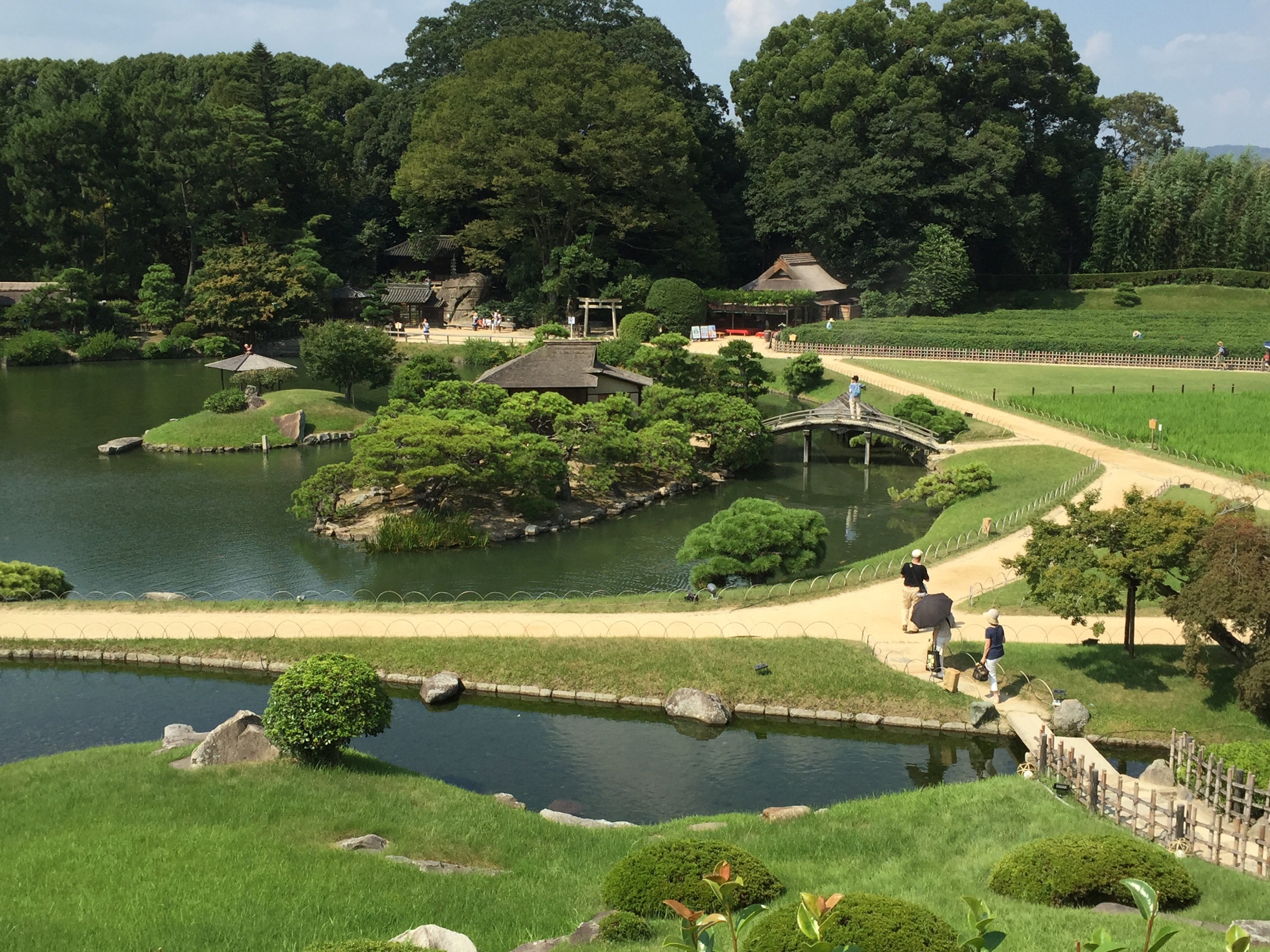 Koraku-en in Okayama